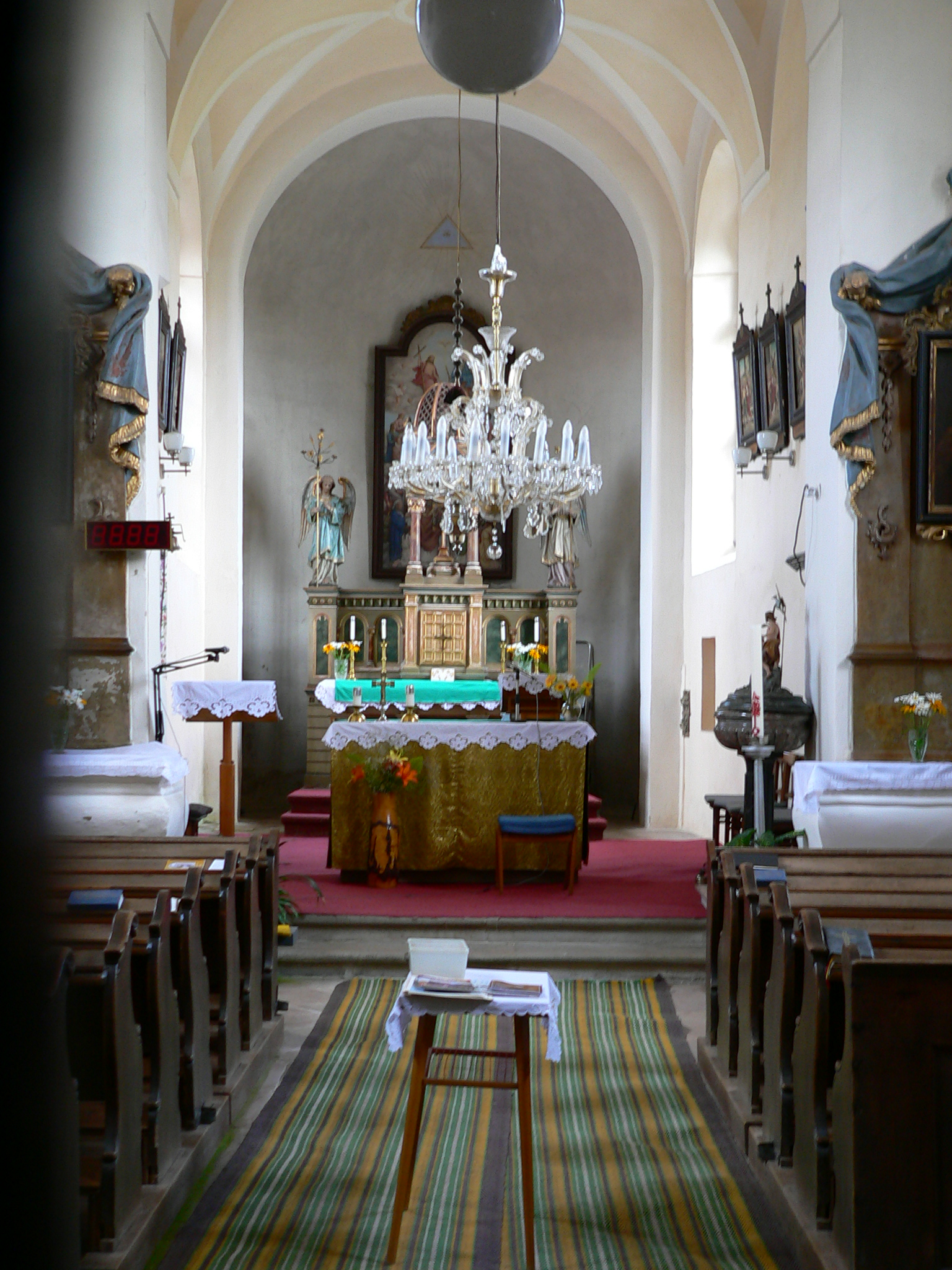 Interior of church in Ujezd u Cerne Hory